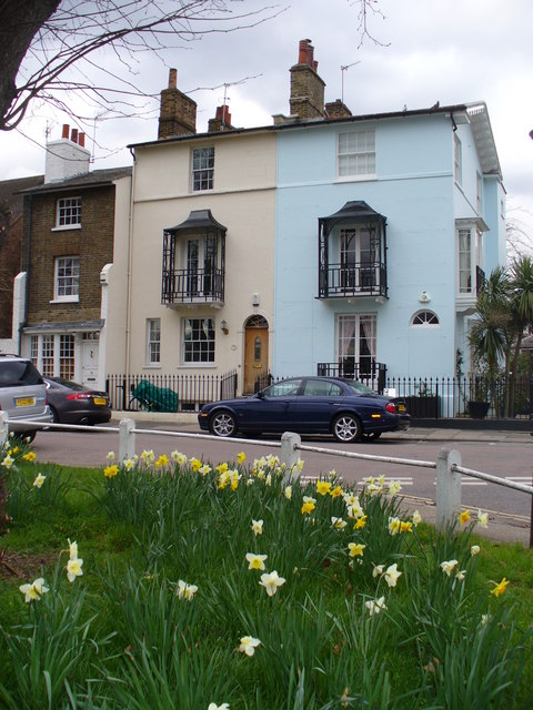 Cottages on Kew Green Attractive cottages, painted in pastel colours, facing the eastern part of Kew Green.